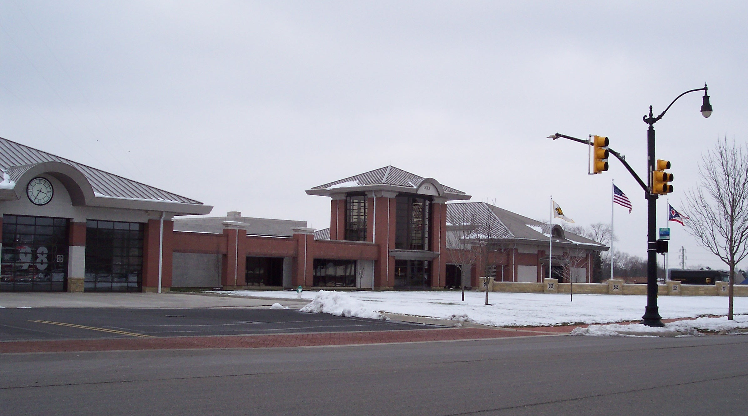 Photo of the Englewood, Ohio Government center.